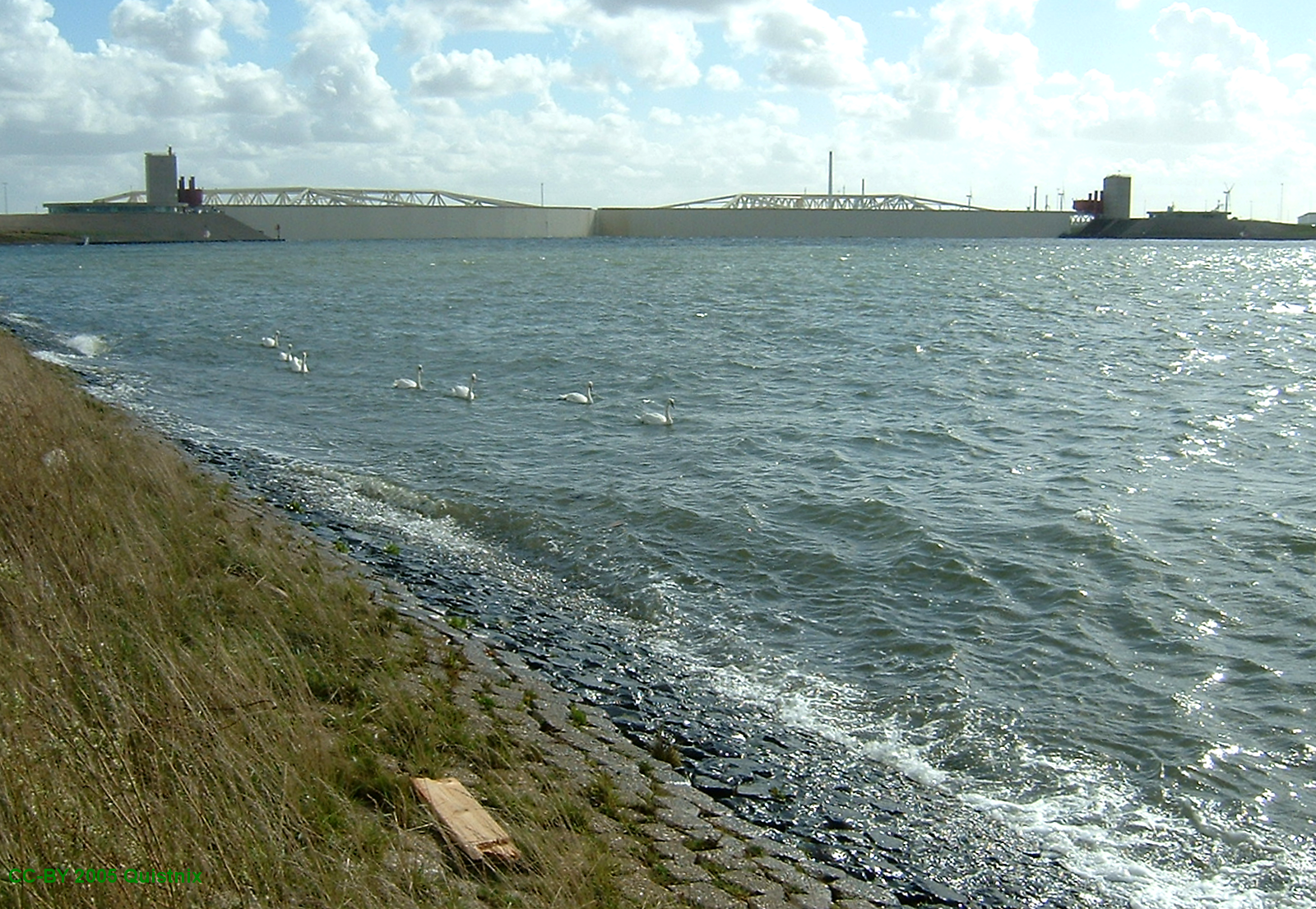 Maeslantkering near Hoek van Holland closed